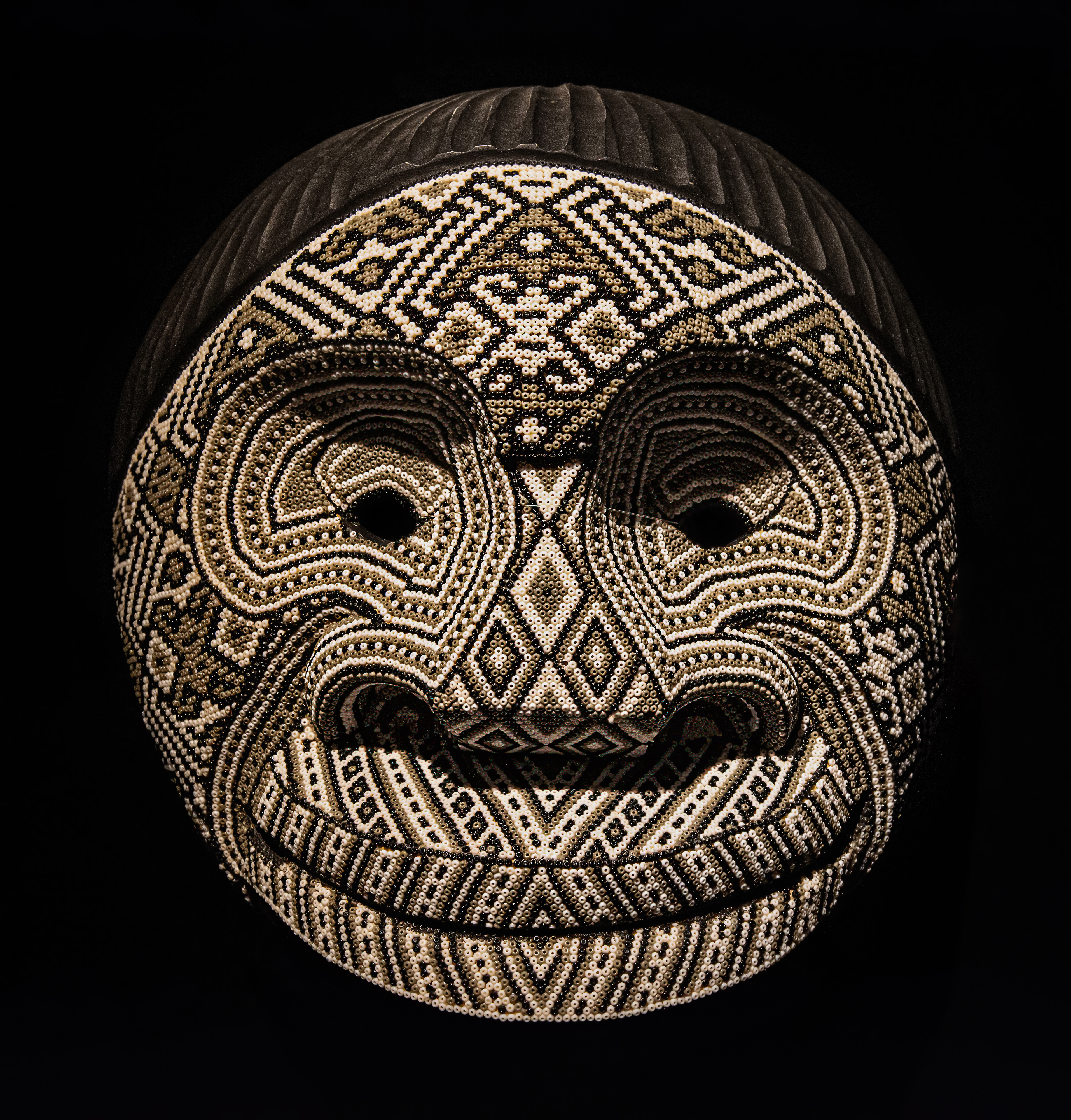 Mask used in folk ritual of Chaquiras indigenous people of Colombia. Used in spiritual rituals related to abundance and sexuality and in medicinal rituals in which the ayahuasca plant is used. Altino Arantes Museum This photo has been taken in the country: Colombia